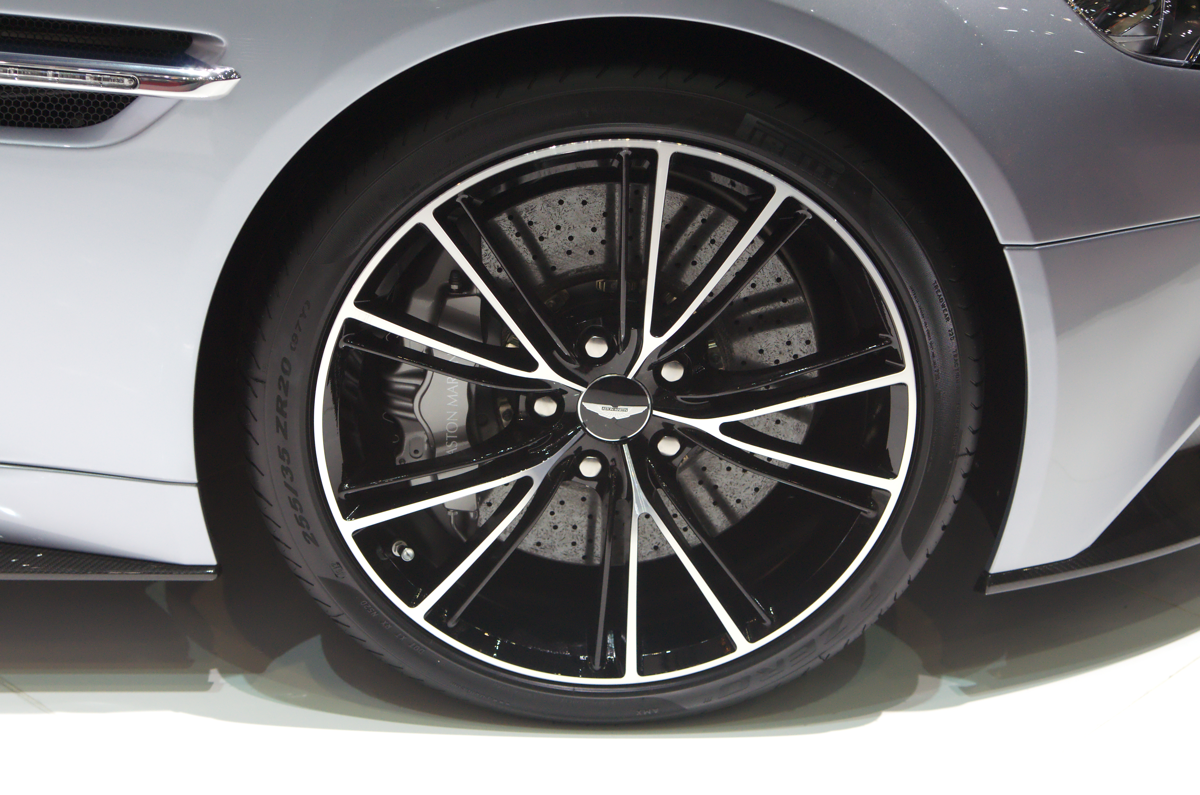 Geneva MotorShow 2013 - Aston Martin DB9 wheel